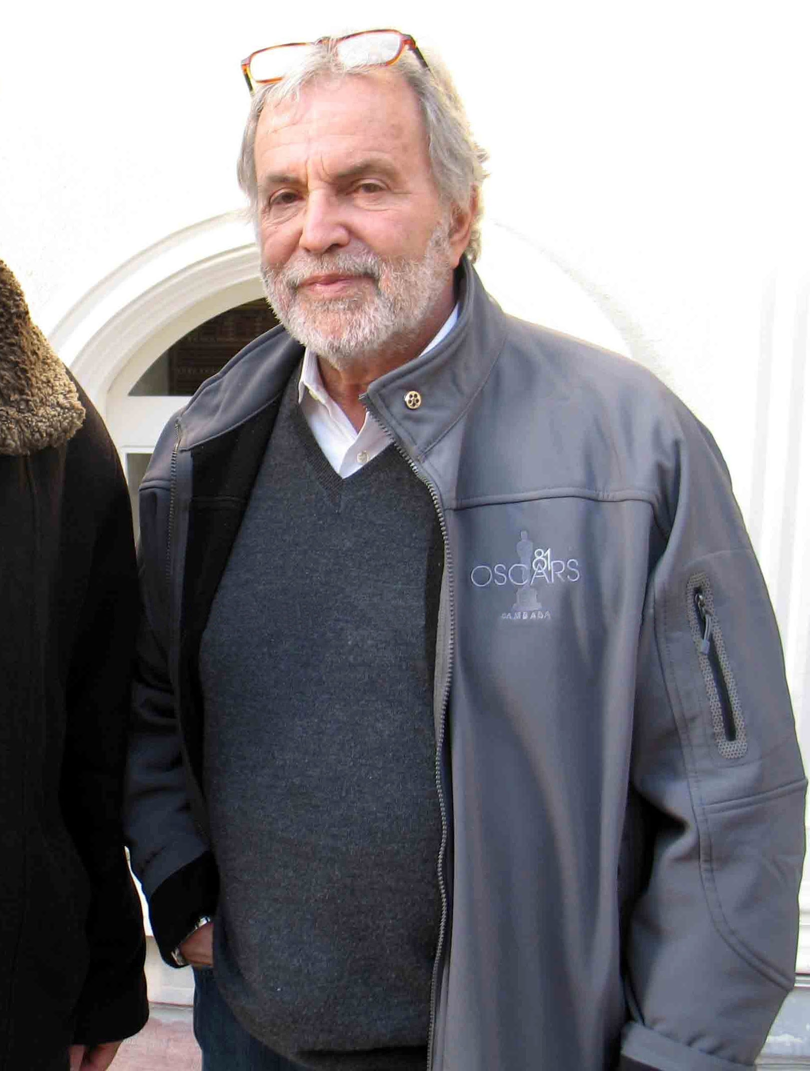 Sid Gani, former president of Academy of Motion Pictures, Arts and Sciences in Tehran, February 2002